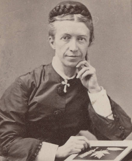 Elizabeth Wood Kane in Salt Lake City. Picture taken by C.R. Savage most likely in 1872-1873 during winter Utah visit.